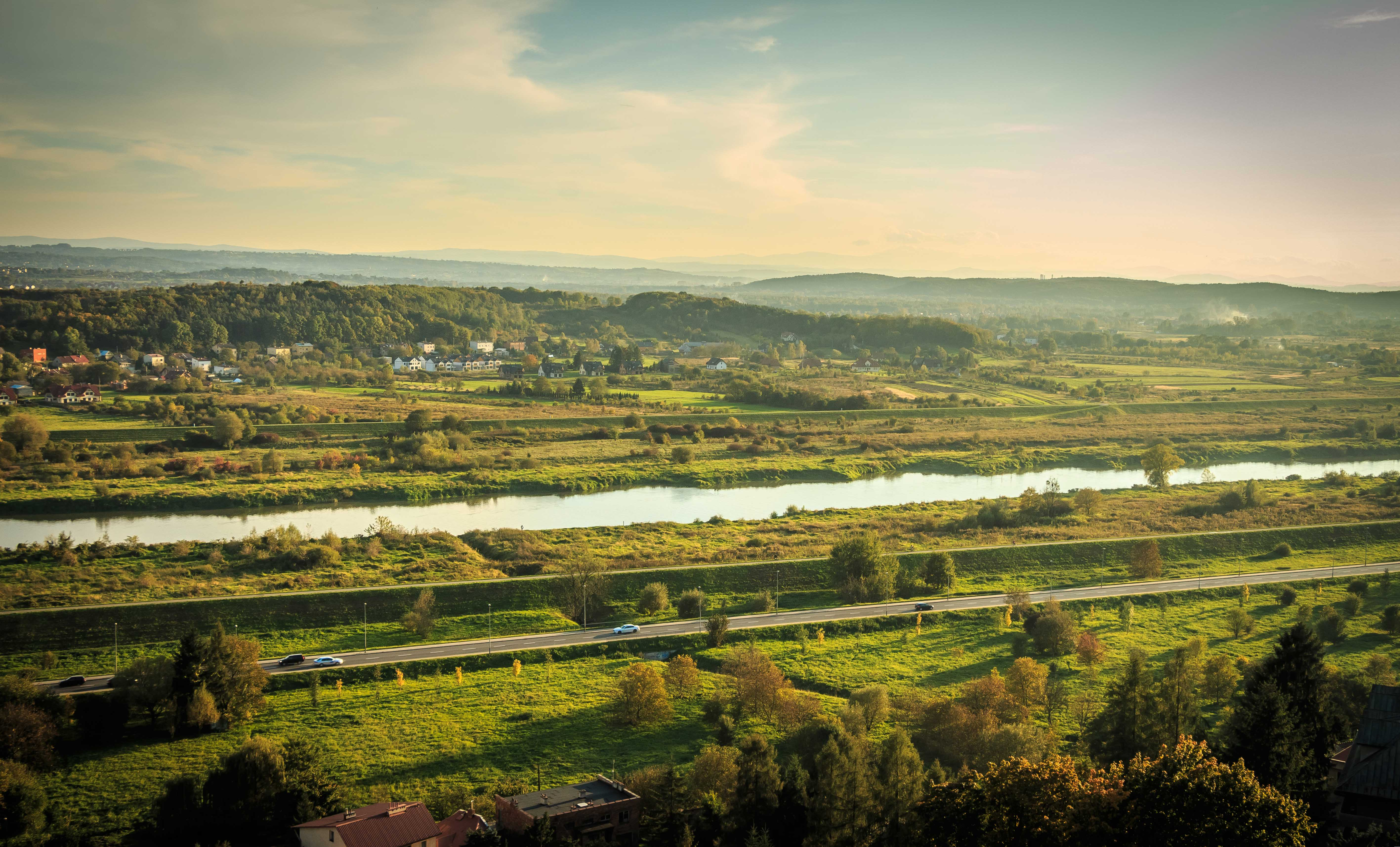 A view over the Vistula river from Przegorzały Castle in Kraków